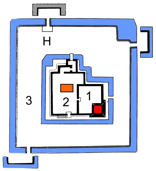 Layout of old Sasayama castle